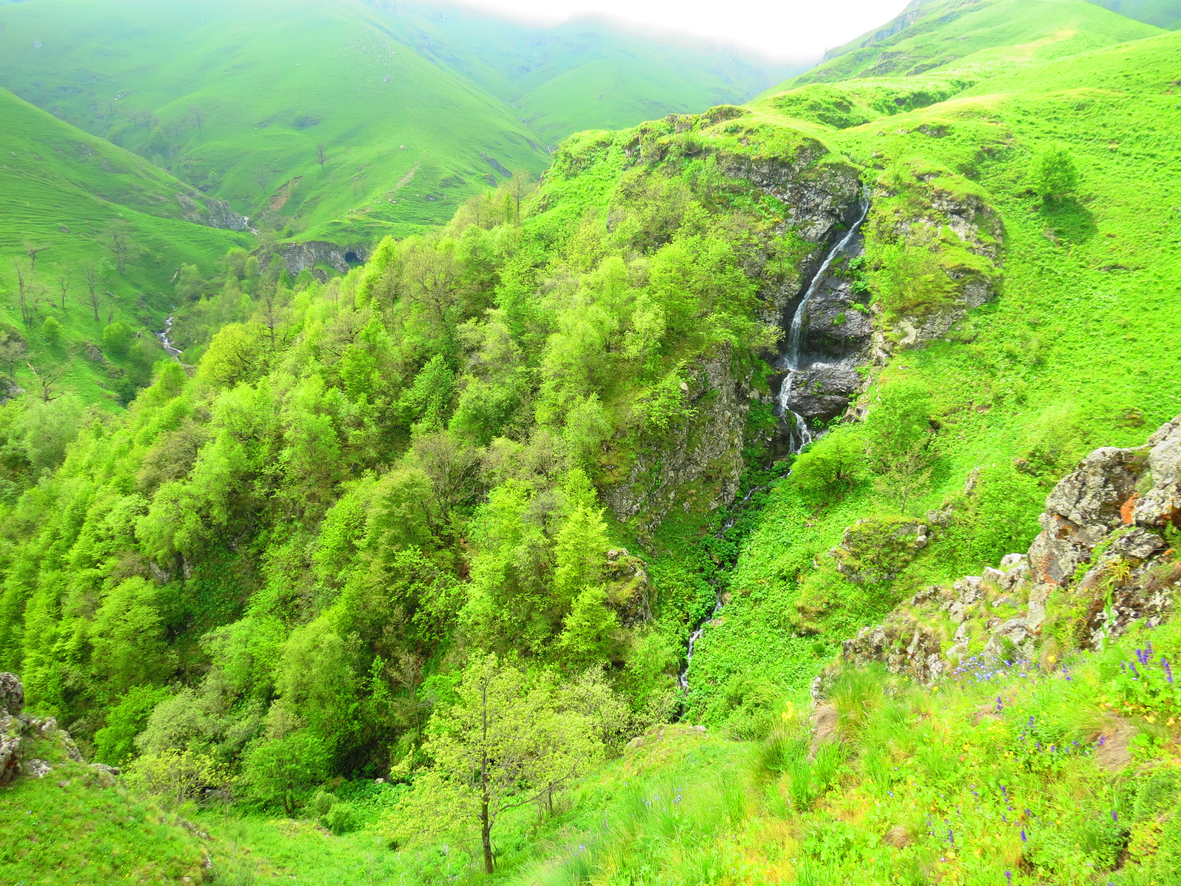 waterfall in Goygol National Park. Photo by Uzeyir Mikayilov 8